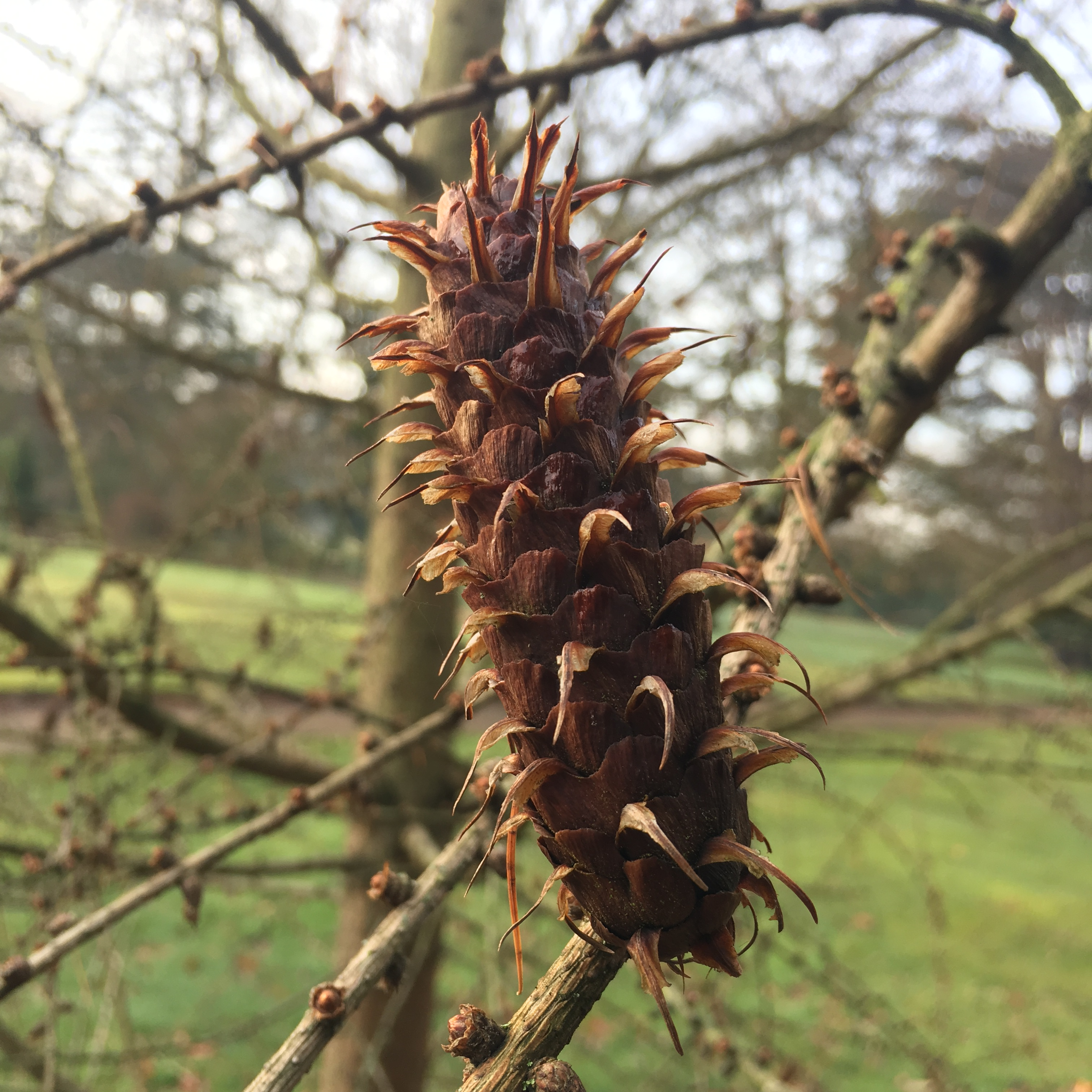 Female cone (megastrobilus) of Larix griffithii (Sikkim larch), photographed at Osterley Park in west London, UK, in 2018.